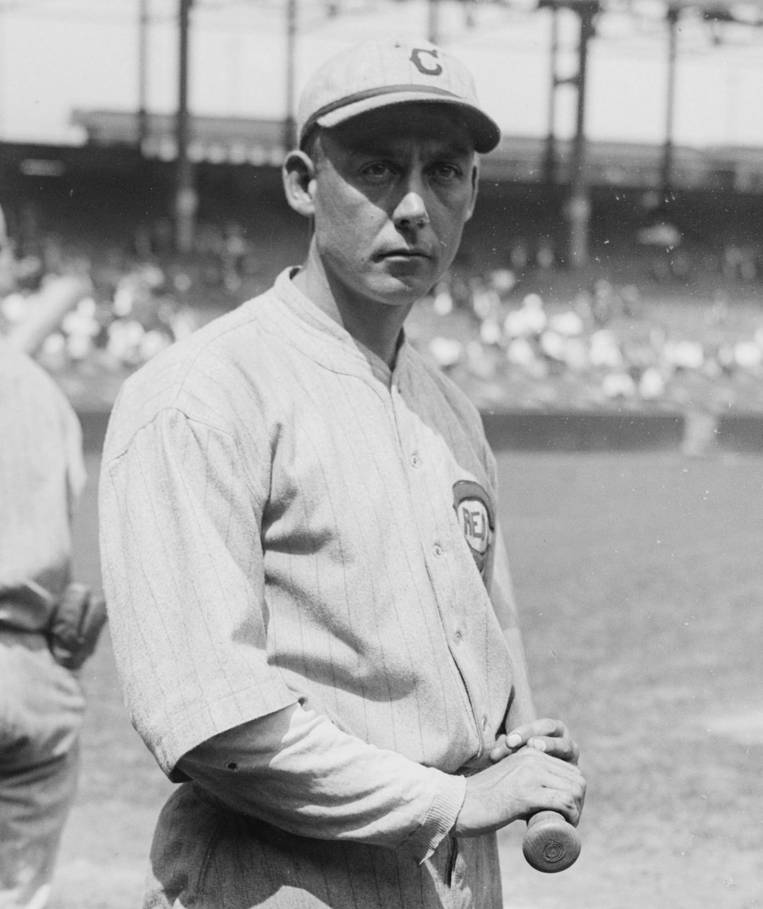 Title: Edd Roush, Cincinnati NL (baseball) Abstract/medium: 1 negative : glass ; 5 x 7 in. or smaller. Cropped